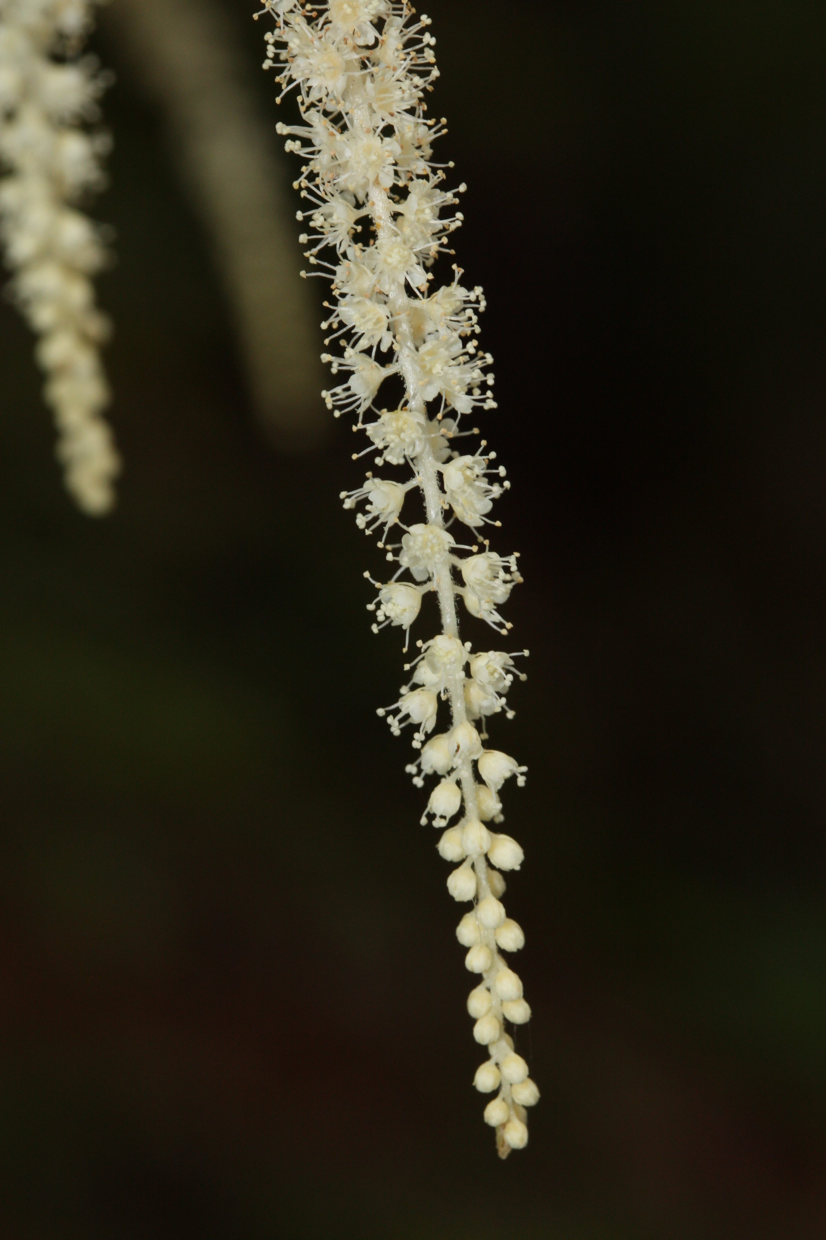 Sylvan Goatsbeard, Bride's Feathers; staminate flowers